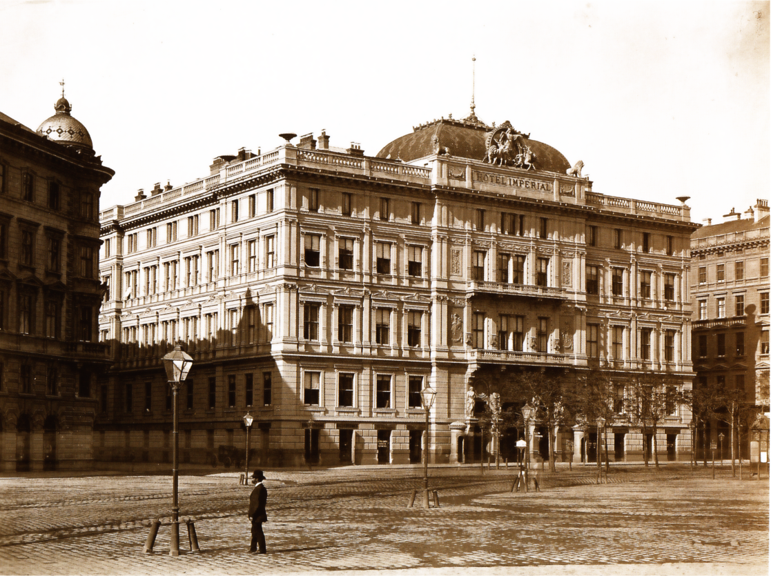 The Hotel Imperial in Vienna